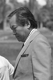 Thai foreign minister Chatichai Choonhavan, c. 1974, by Norman Peagam